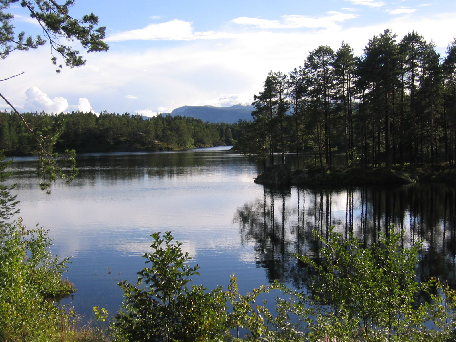 Telemarksvegen, Norway